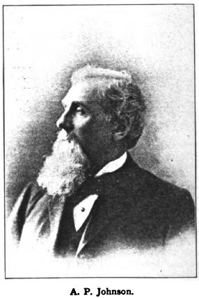 Portrait of Andrew P. Johnson, founder of the Johnson Chair Company of Chicago, IL.